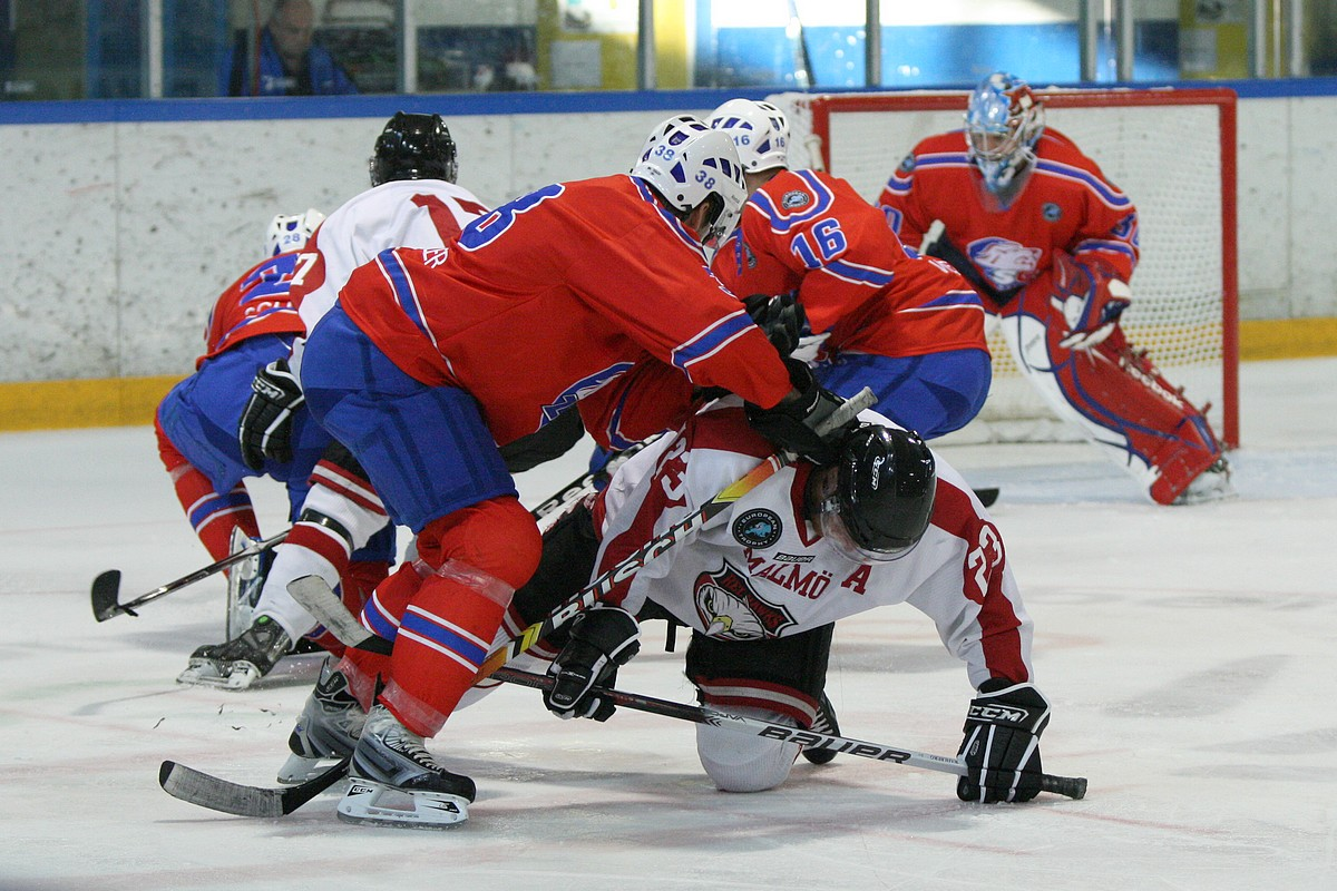 New season - new action. European pre-season tournament 2010 . European Trophy game ZSC vs Malmoe Redhawks 4-1.